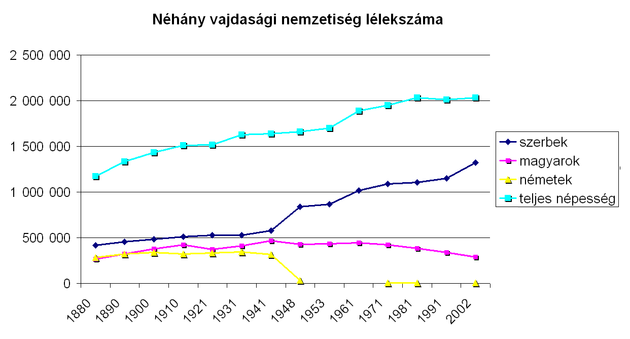 Chart of demographic history of some ethnic groups in Voivodina, Serbia, with labels in Hungarian. The source of datas is the Demographic history of Vojvodina.